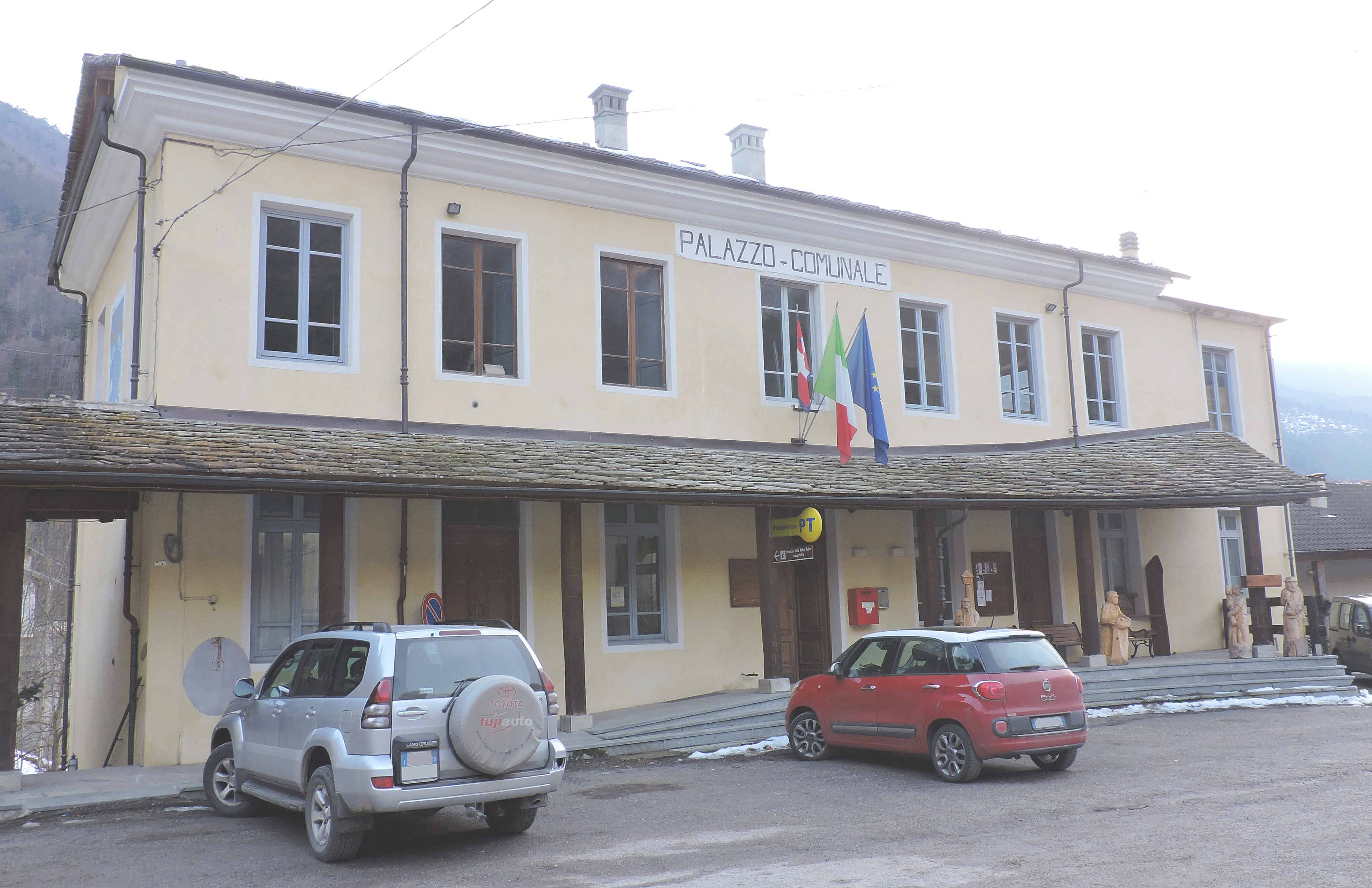 Macra (CN, Italy): town hall